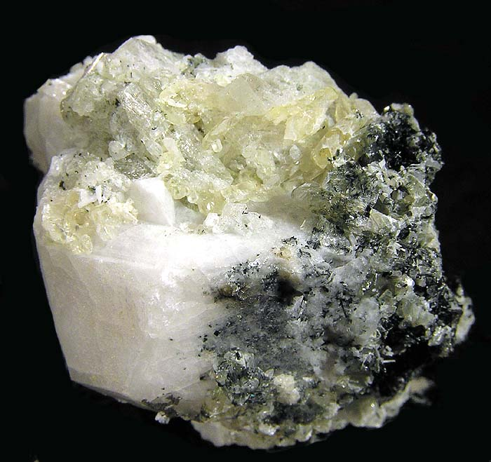 Haineaultite, Analcime, Natrolite Locality: Poudrette quarry (Demix quarry; Uni-Mix quarry; Desourdy quarry), Mont Saint-Hilaire, Rouville RCM, Montérégie, Québec, Canada (Locality at ) This specimen would be considered a very rich example because of the eye-visible wealth of bright , gemmy yellow crystals present; and comes with a label from Gilles Haineault showing that he collected it in April of 2000. The crystals are not sparse at all and a whole seam of them is easily seen without needed visual aid. The piece has several very sharp crystals to 2mm. 3.5 x 2.9 x 2.1 cm